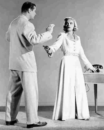 Actors Don DeFore and Lizabeth Scott in Too Late for Tears (1949) screenshot